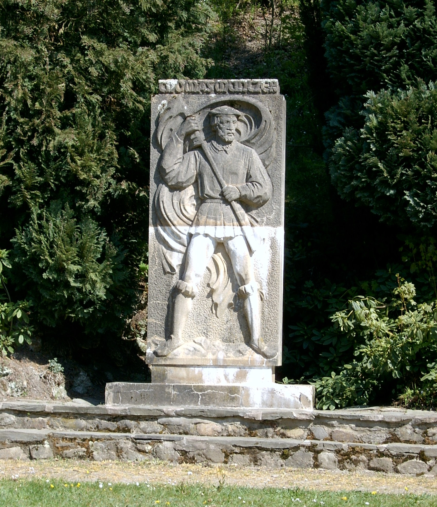 Sculpture of Thomas Müntzer waving a rainbow flag for peace